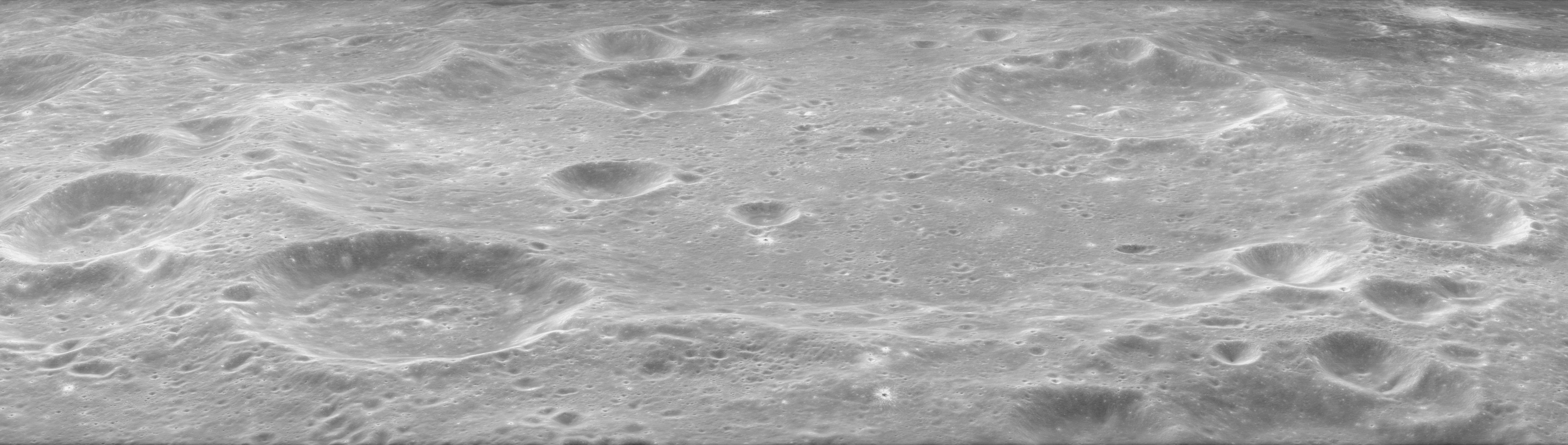 Oblique view of Hirayama crater, facing west, on the moon. Taken by Apollo 17 panoramic camera.